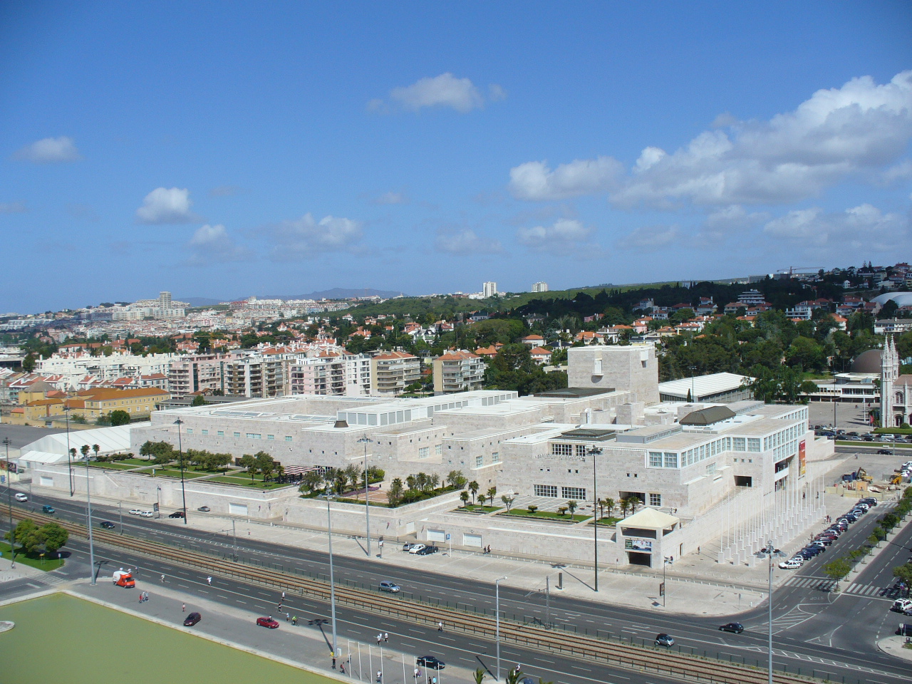 Centro Cultural de Belém in Lisbon, Portugal